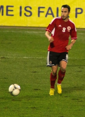 Ervin Bulku with Albania National Football Team